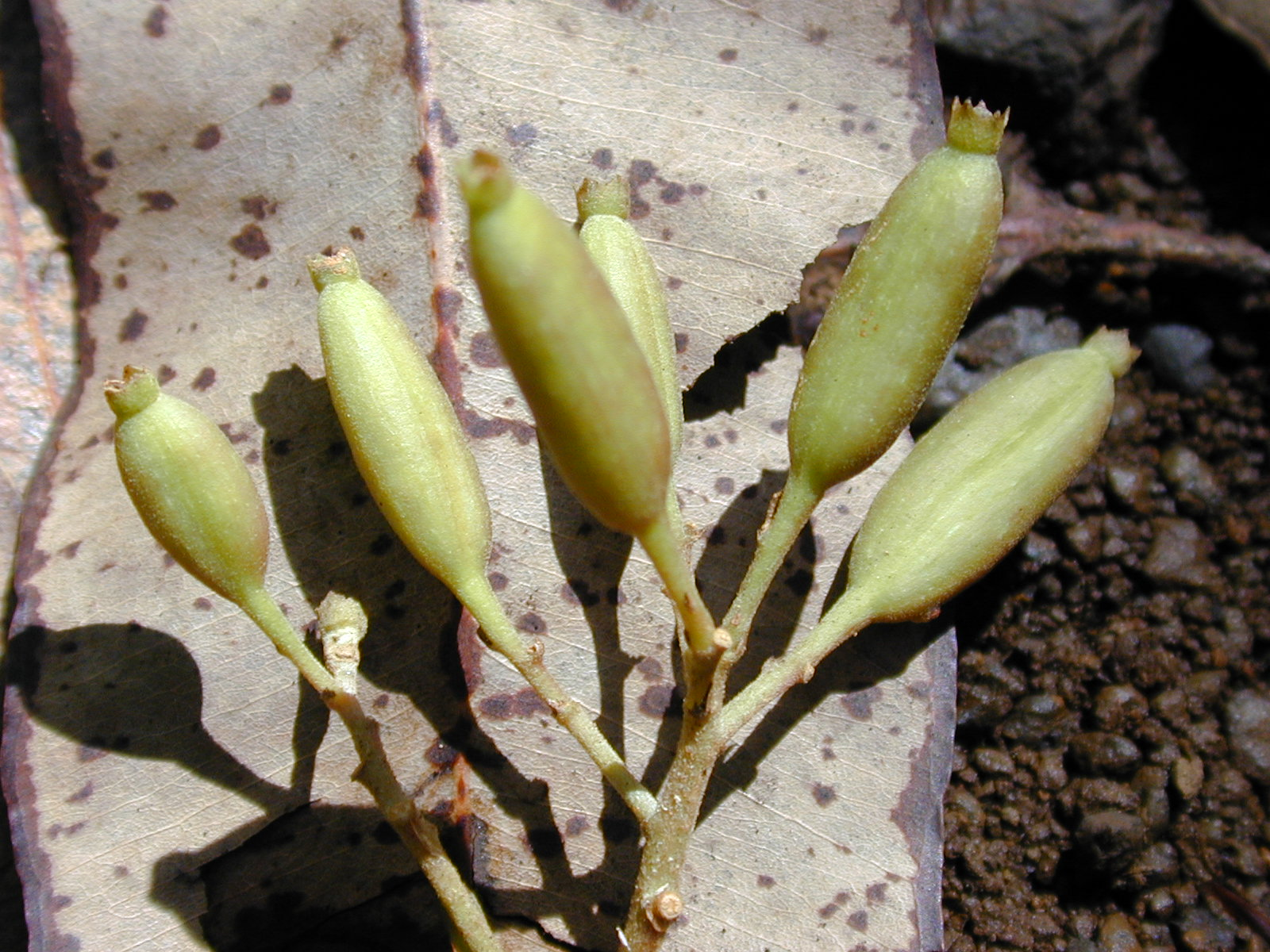 Cinchona pubescens (fruits). Location: Maui, Makawao Forest Reserve